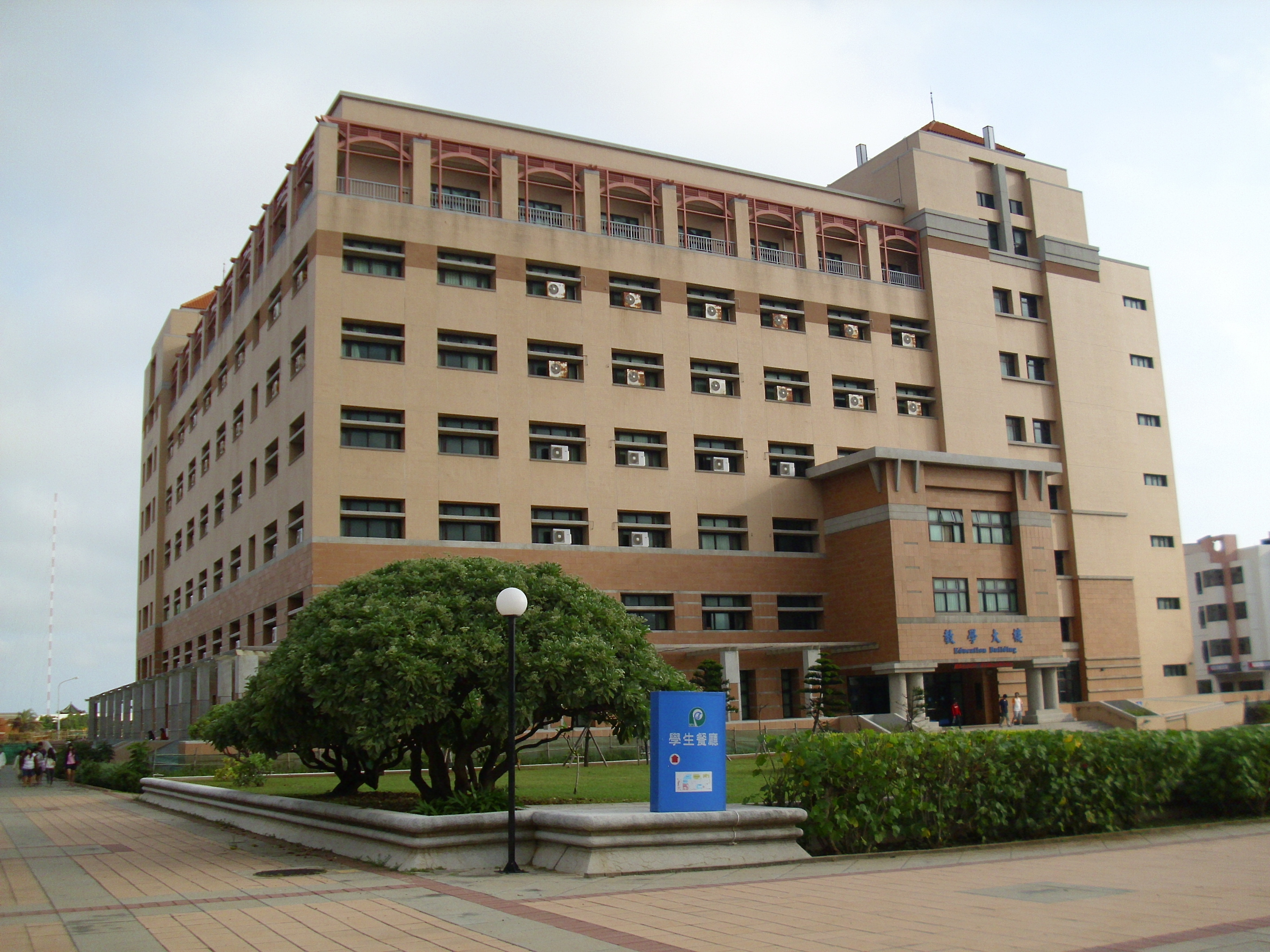 National Penghu University - Education Building 中文（台灣）: 國立澎湖科技大學 - 教學大樓